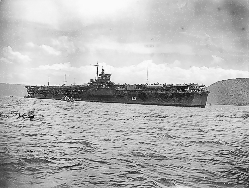 AWM Caption: Rabaul, New Britain. 1946-01-31. The Japanese Navy aircraft carrier Katsuragi in Simpson Harbour. The ship was transporting 5000 Japanese troops from the Solomon Islands to Japan and had called at Rabaul to refuel.